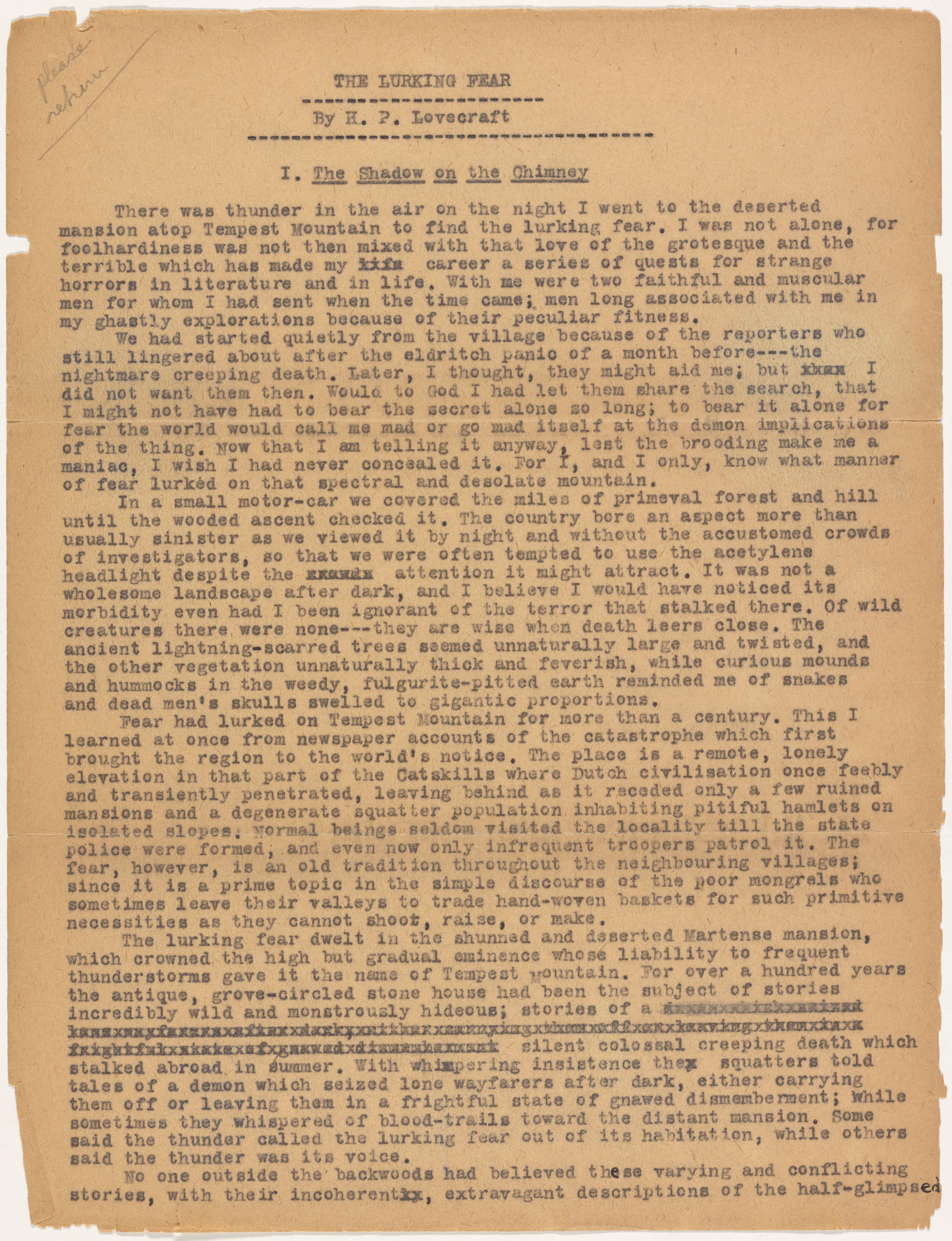 First page of the manuscript The Lurking Fear.